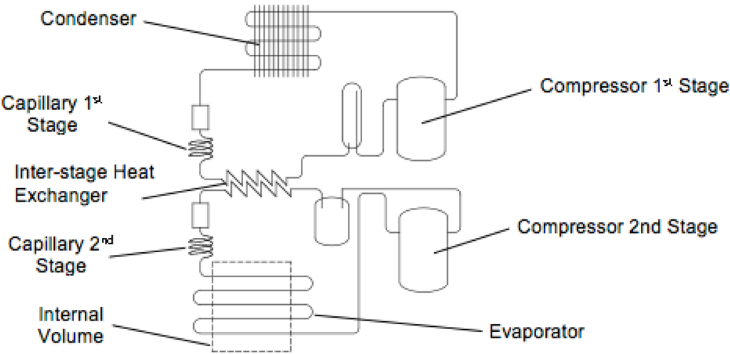 This image shows a two-cycle cascade refrigeration process schematic diagram